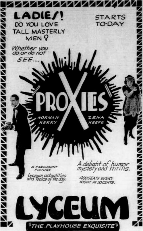 Newspaper advertisement for the American drama film Proxies (1921) with Norman Kerry and Zena Keefe, on page 13 of the August 17, 1921 Duluth Herald.